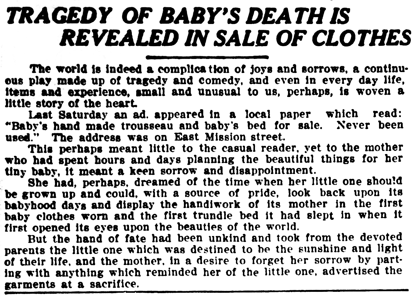 Article from The Spokane press. (Spokane, Wash.) 1902-1939, May 16, 1910, Page 6. And relevant to the article For sale: baby shoes. Text reads as follows: TRAGEDY OF BABY'S DEATH IS REVEALED IN SALE OF CLOTHES The world is indeed a complication of joys and sorrows, a continuous play made up of tragedy and comedy, and even in every day life, items and experience, small and unusual to us, perhaps, is woven a little story of the heart. Last Saturday an ad. appeared in a local paper which read: "Baby's hand made trousseau and baby's bed for sale. Never been used." The address was on East Mission street. This perhaps meant little to the casual reader, yet to the mother who had spent hours and days planning the beautiful things for her tiny baby, it meant a keen sorrow and disappointment. She had, perhaps, dreamed of the time when her little one should be grown up and could, with a source of pride, look back upon its babyhood days and display the handiwork of its mother in the first baby clothes worn and the first trundle bed it had slept in when it first opened its eyes upon the beauties of the world. But the hand of fate had been unkind and took from the devoted parents the little one which was destined to be the sunshine and light of their life, and the mother, in a desire to forget her sorrow by parting with anything which reminded her of the little one, advertised the garments at a sacrifice.